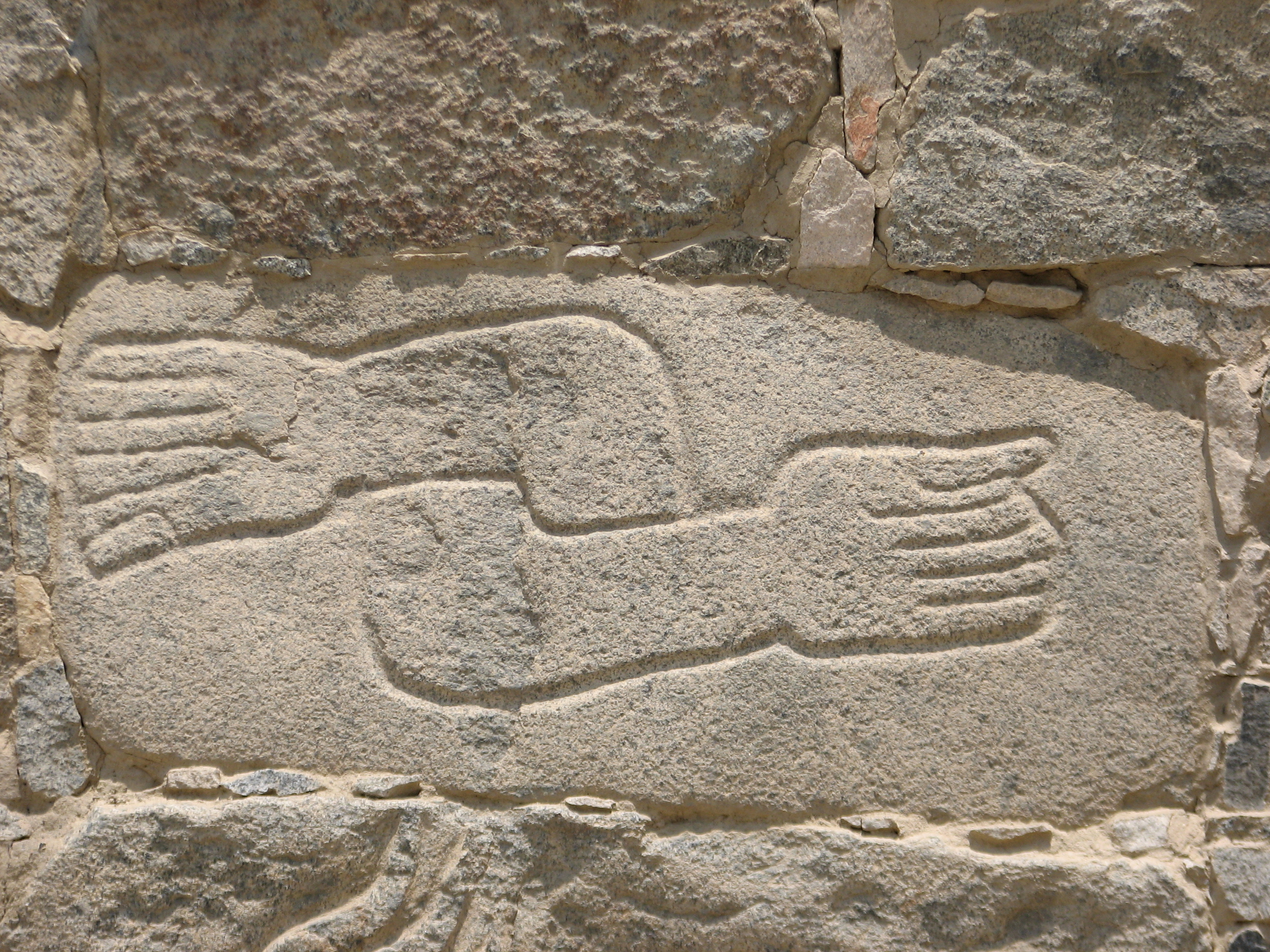 Sechín Archaeological site (relief - hands)